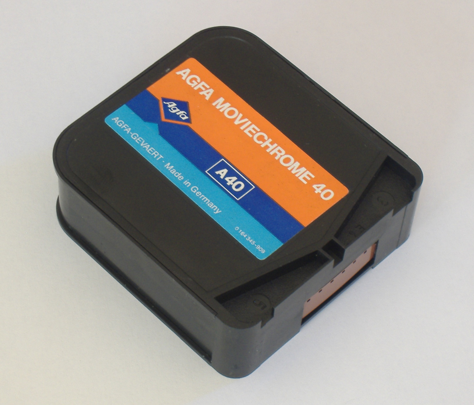 Cartucho Super 8 Agfa Moviechrome 40